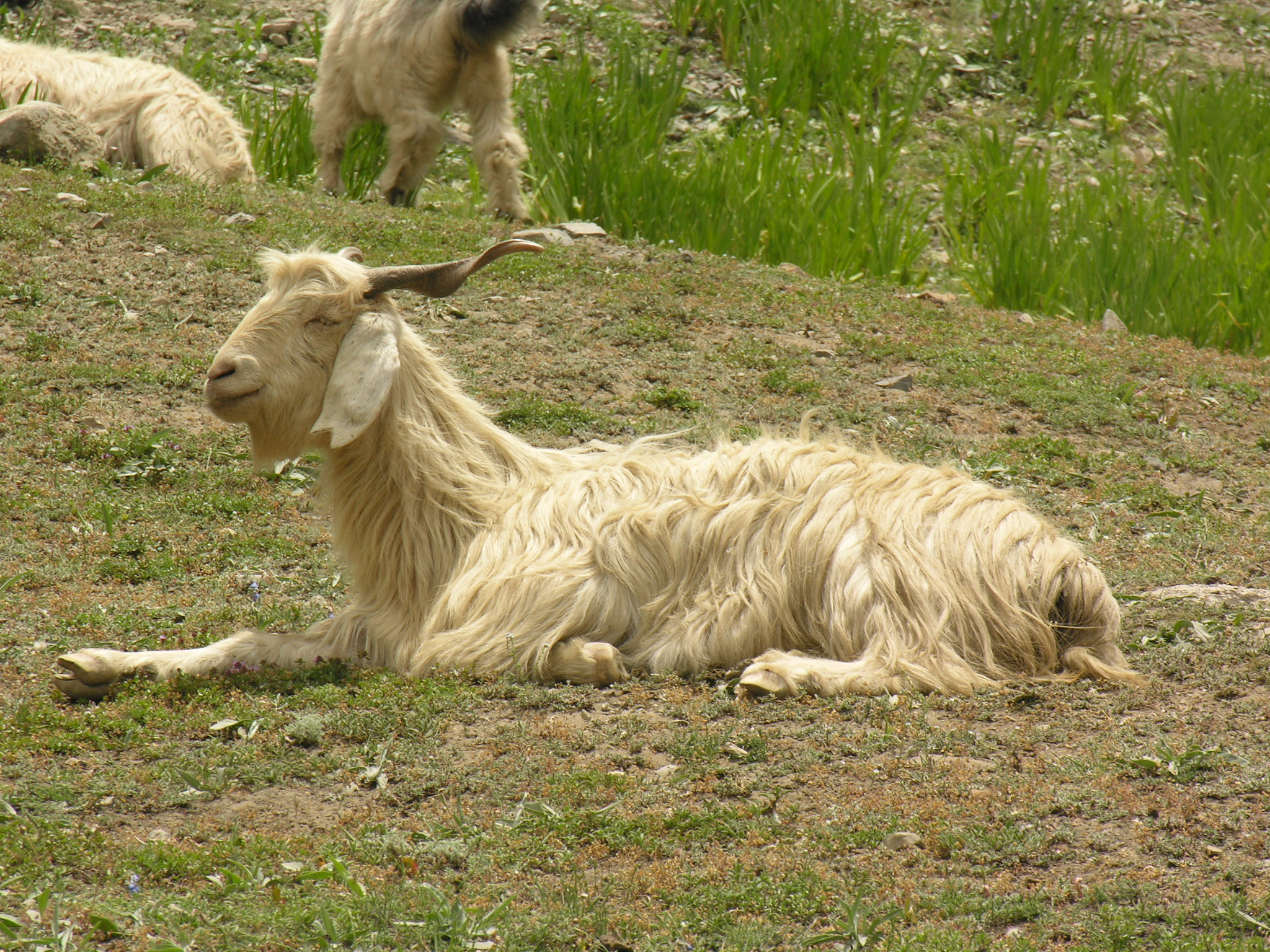 Goat from which popular Pashmina shawls are made.